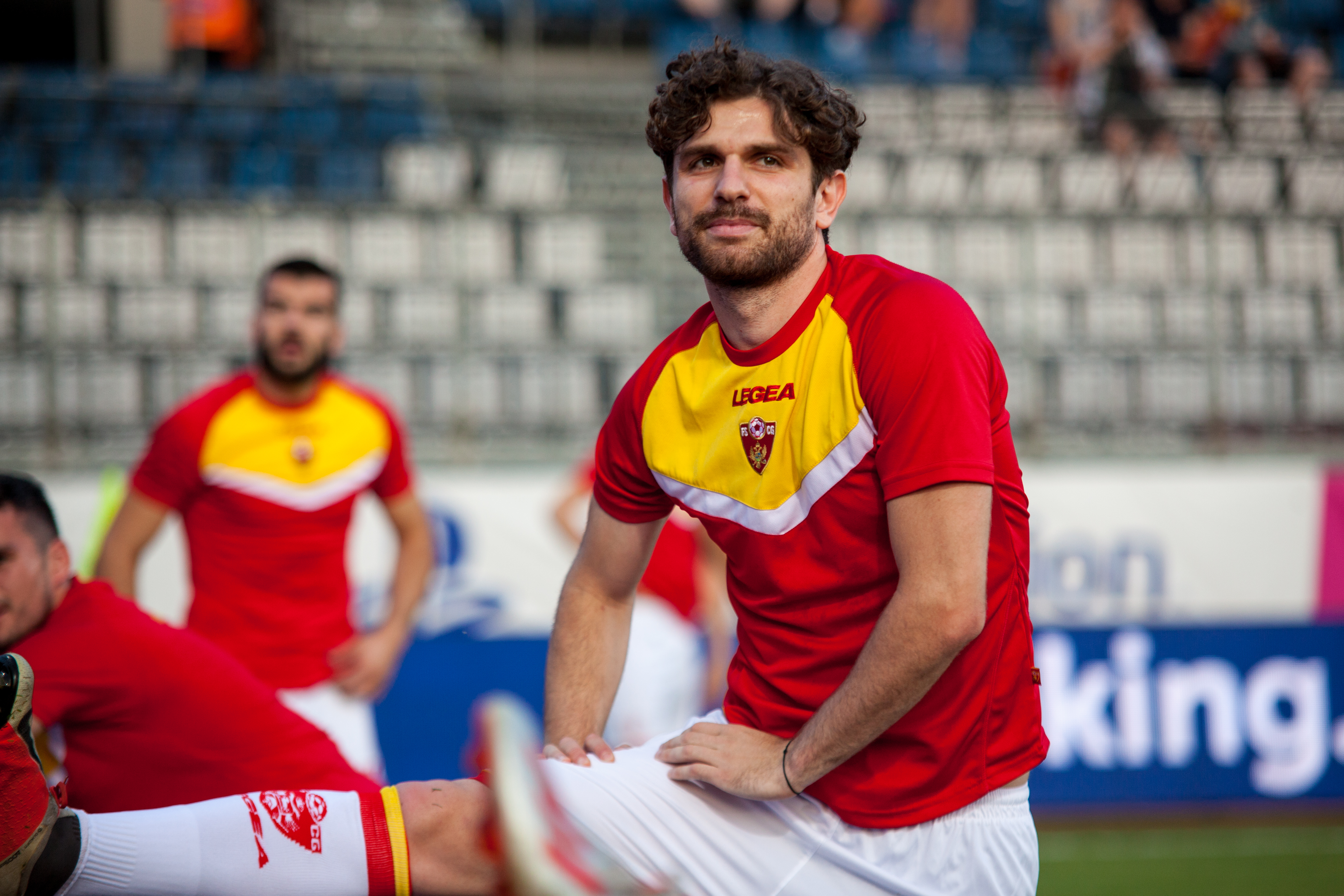 Boris Kopitović at EURO 2020 Qualifying Round Czech Republic-Montenegro (10/6/2019, Ander Stadium, Olomouc) Personality rights warningAlthough this work is freely licensed or in the public domain, the person(s) shown may have rights that legally restrict certain re-uses unless those depicted consent to such uses. In these cases, a model release or other evidence of consent could protect you from infringement claims.